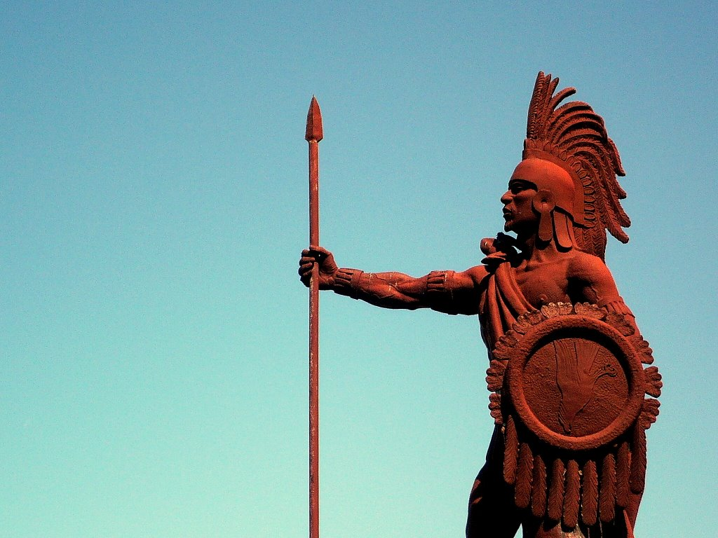 monument to native Mexican Aztec leader Cuauhtémoc in Veracruz, Mexico